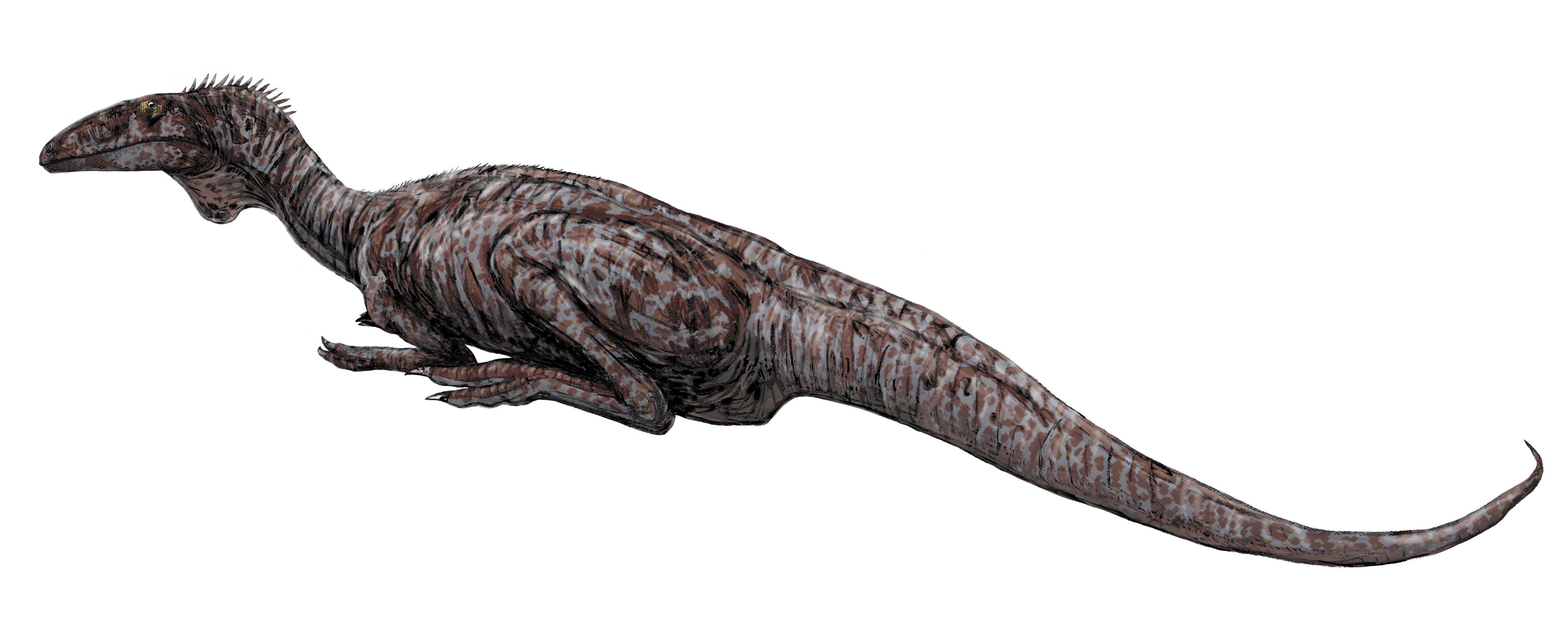 Zupaysaurus rougieri in resting pose, based on possible dilophosaurid trace fossil.